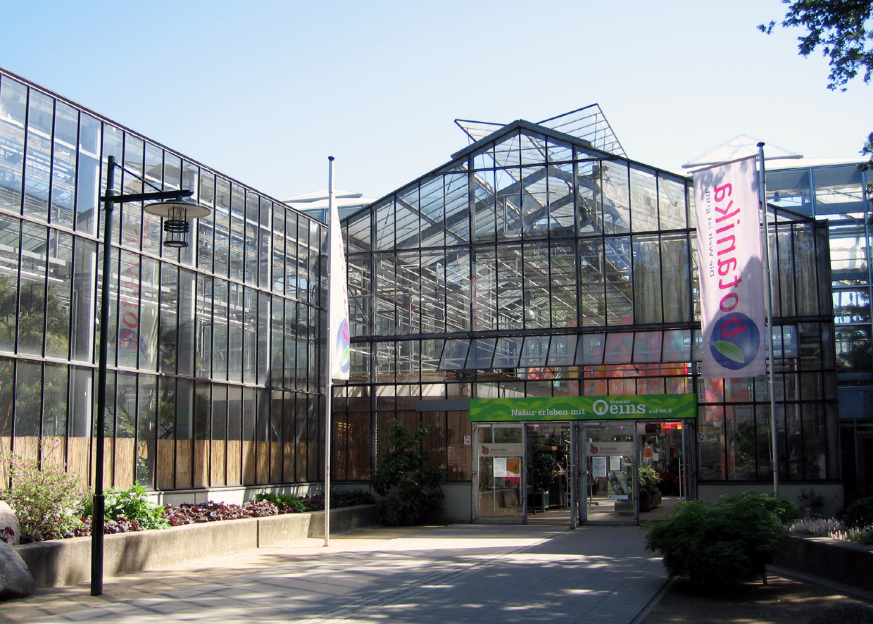 “Rhododendronpark”, the rhododendron park in Bremen (Germany).